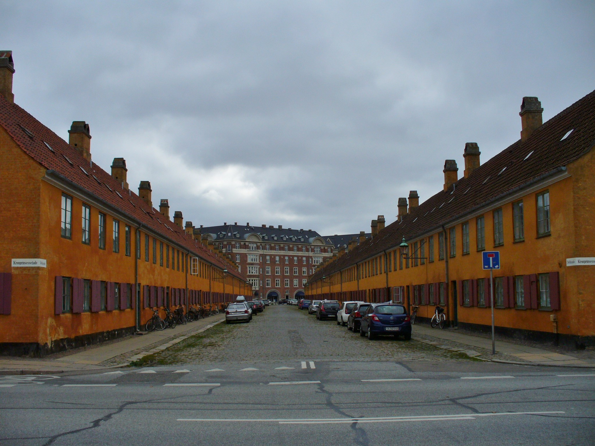 The street Delfingade at Kronprinsessegade in the area Nyboder in Copenhagen.